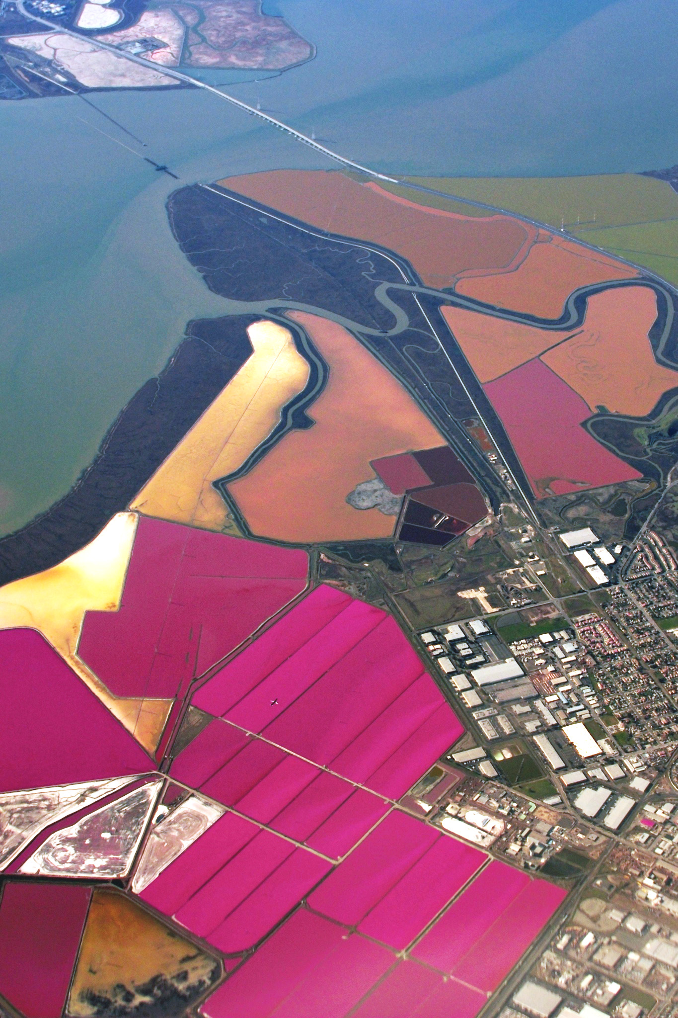 Salt evaporation ponds and their feeder canals, in San Francisco Bay, picture also showing Dumbarton Bridge.